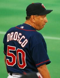 This photo was taken by user dlz28 and entered into the public domain. 03:32, 1 May 2006 . . Dlz28 . . 205×265 (12 KB)